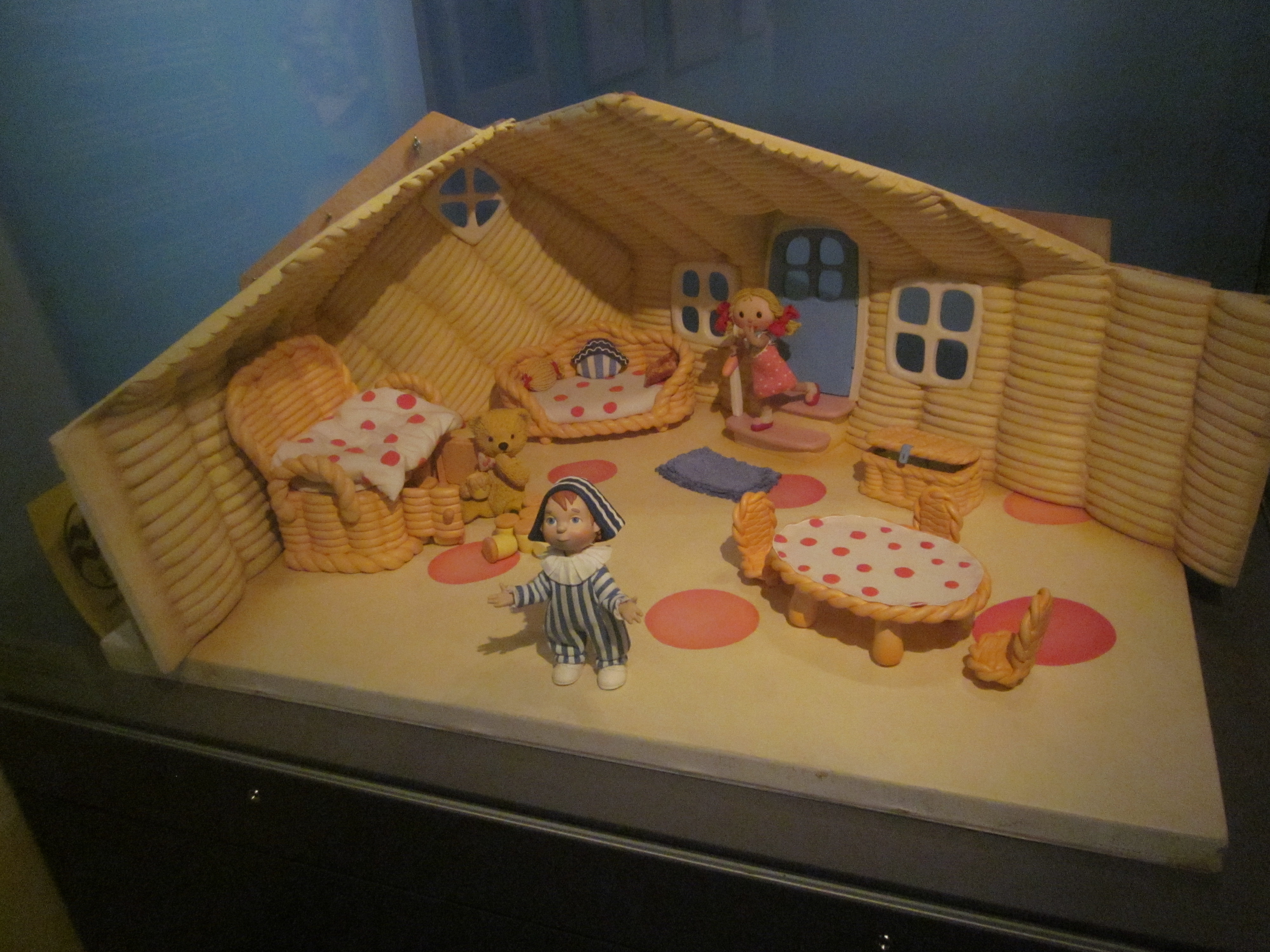 Andy Pandy (and Looby Loo) stop-motion set on display at the National Media Museum, Bradford, UK. Used 2002-2005 for BBC children's television series